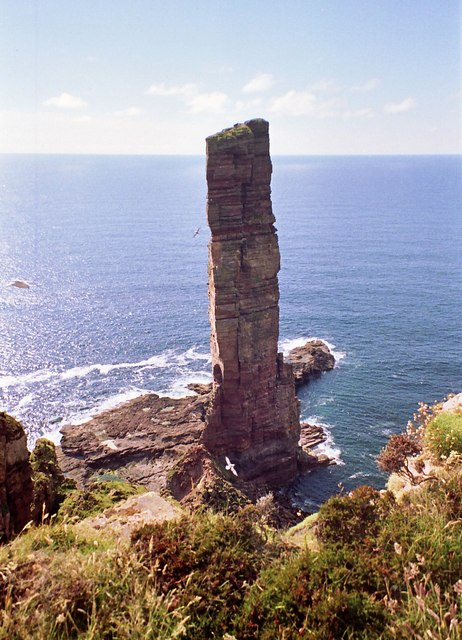 A sea stack known as "The Old Man of Hoy"